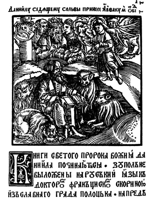 Image from "Book of Daniel" of Francysk Skaryna 1517-1519